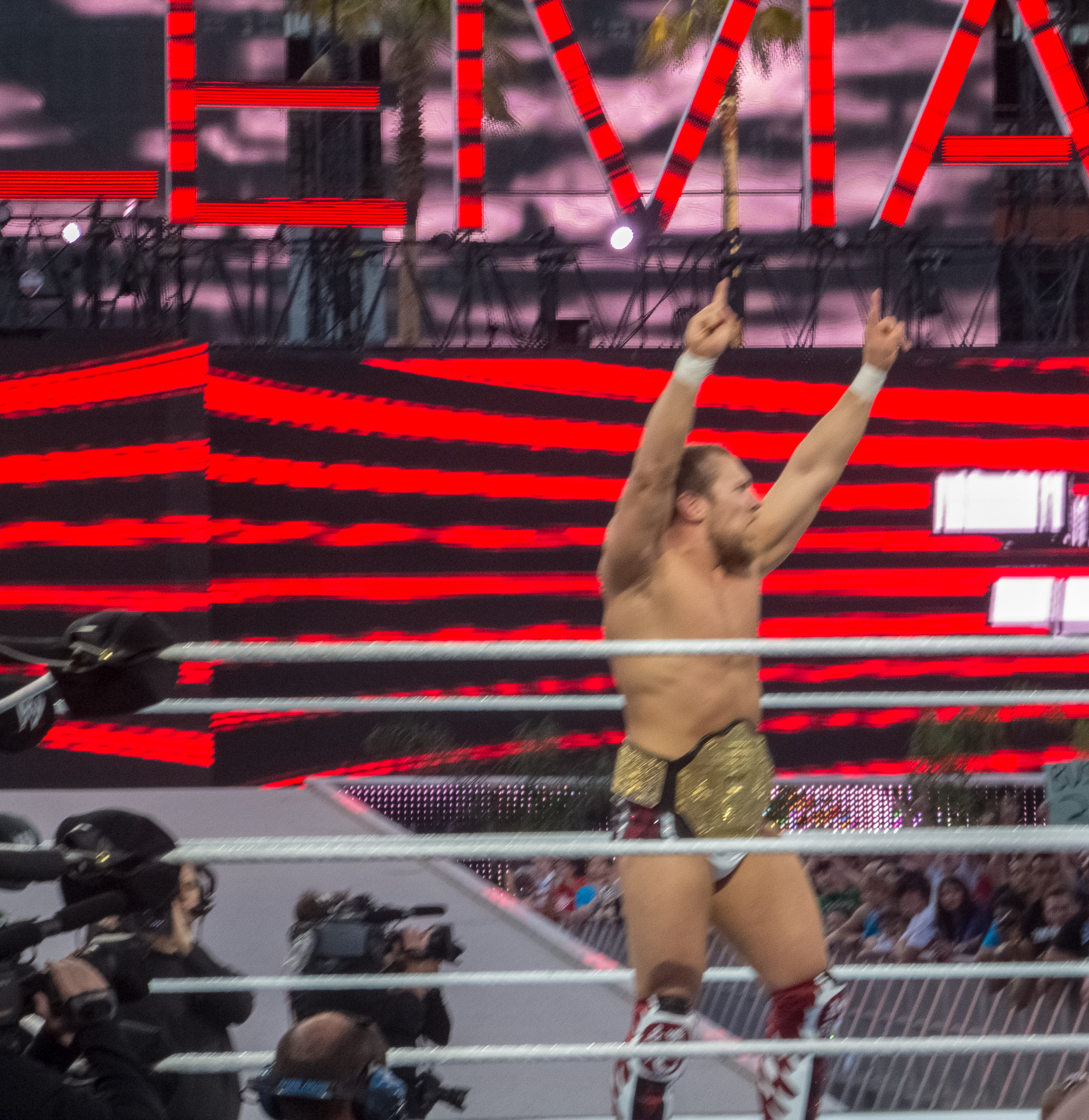 WWE World Heavyweight Championship